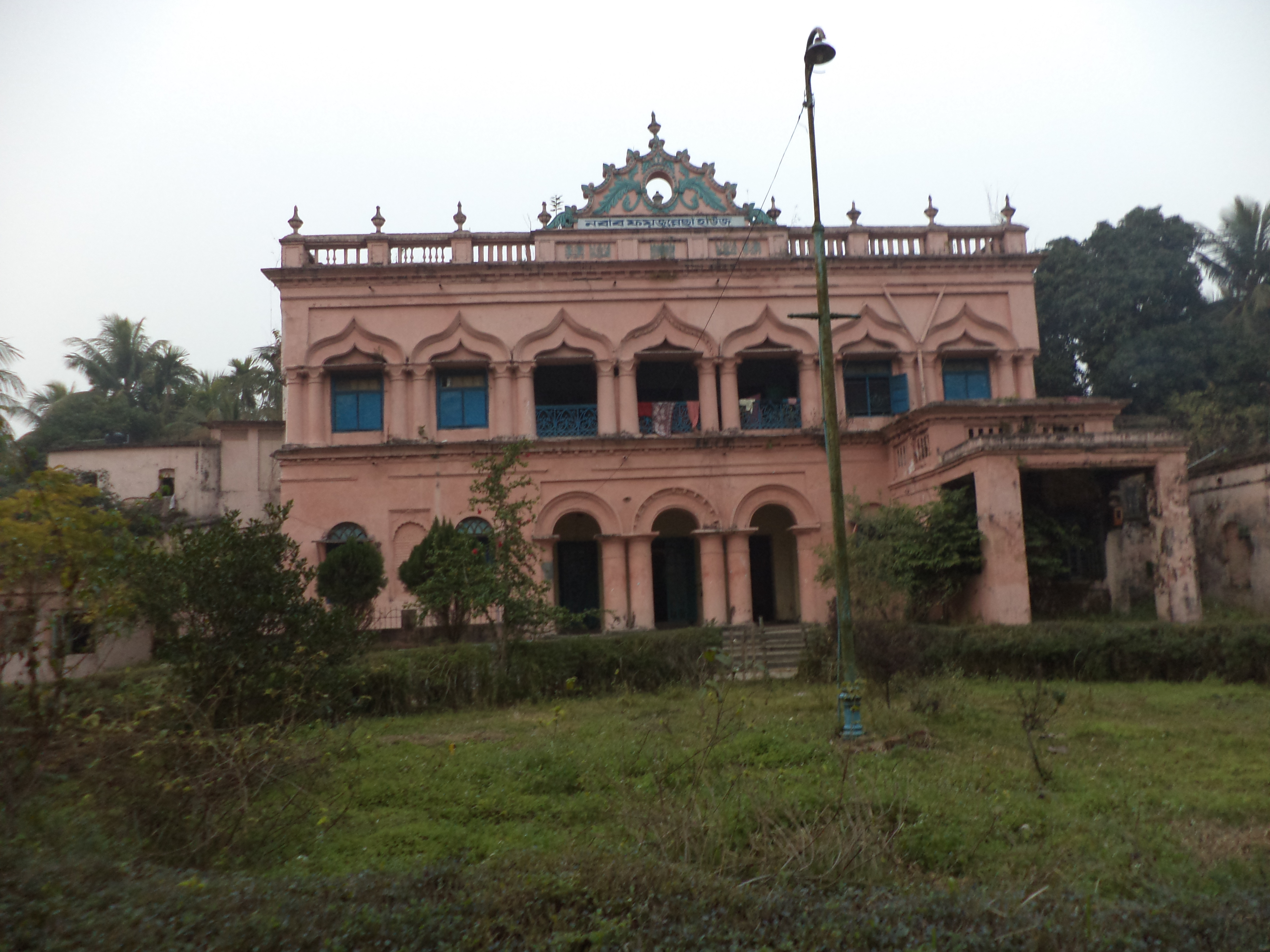 Laksam Nawab bari,Home of Nawab Foyozunnesa.